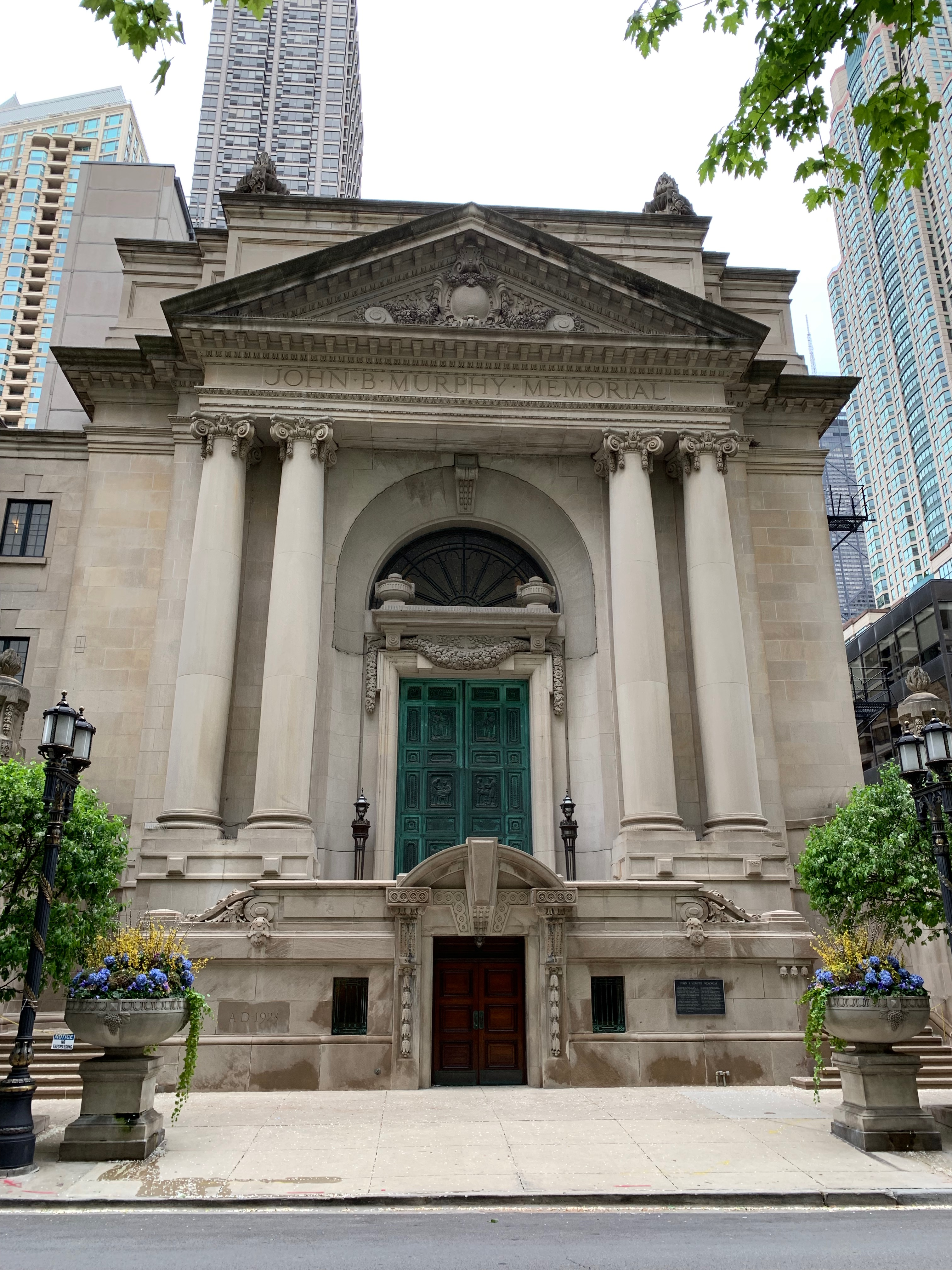 John B Murphy Memorial in Chicago, Illinois.